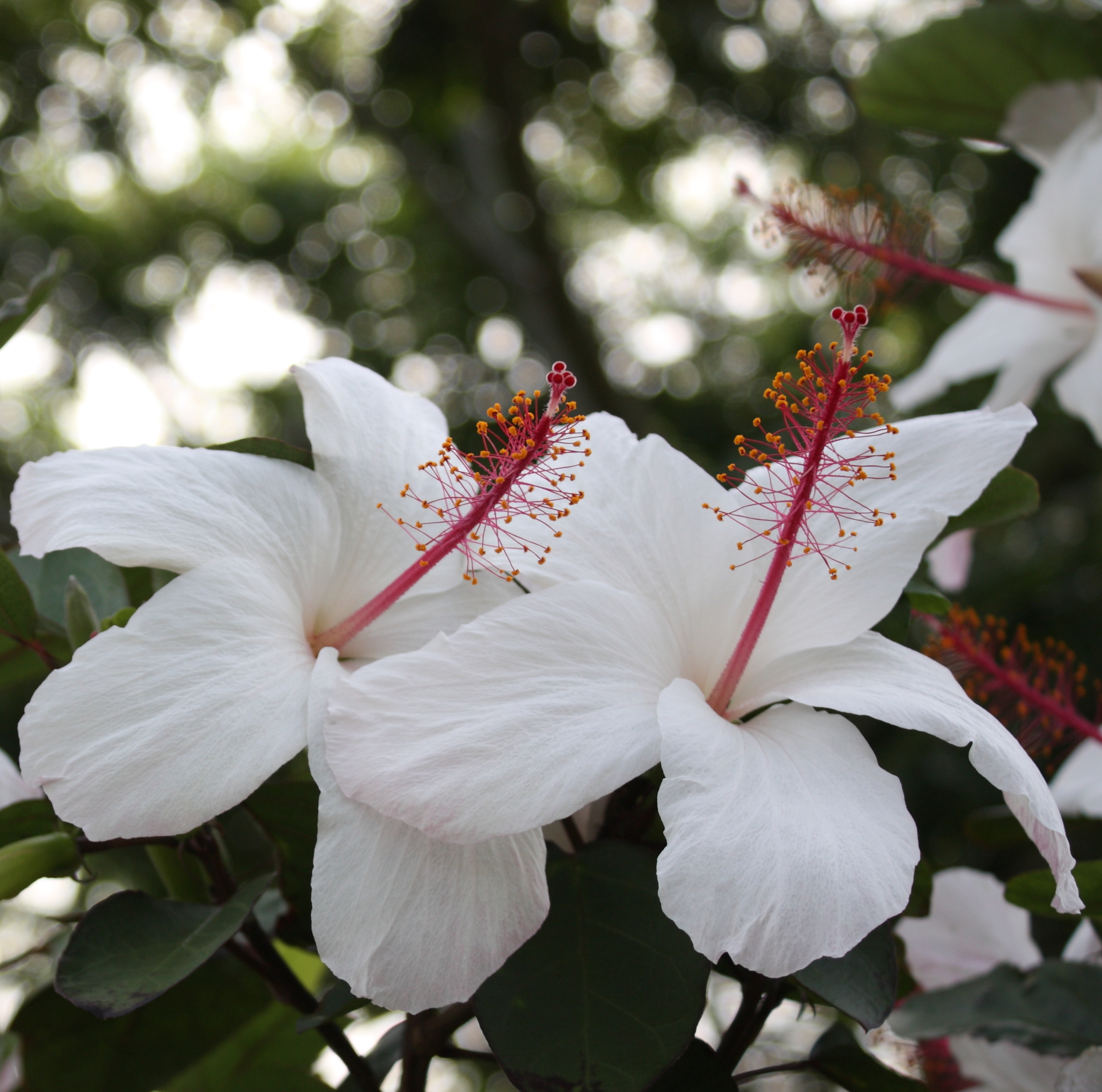 White hibiscus